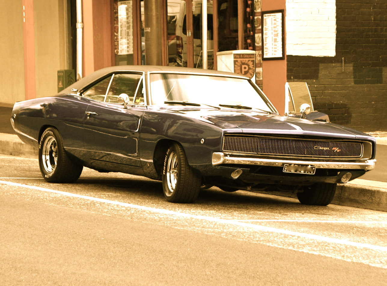 Not a cop car but a classic piece of American Mopar Muscle: 68 R/T, 383 big block, Hurst 4 speed and 8-3/4 Dana diff